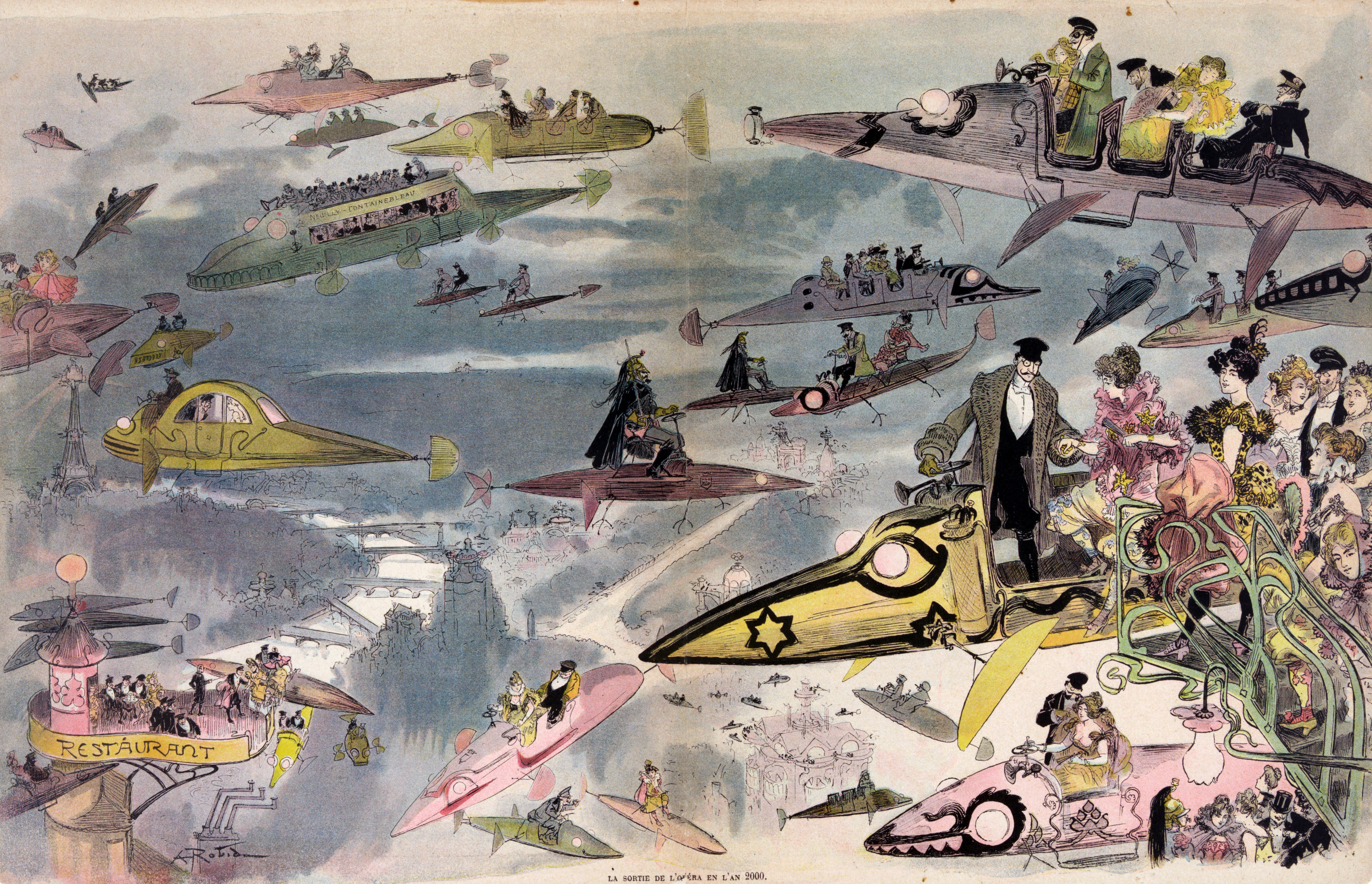 Print shows a futuristic view of air travel over Paris as people leave the Opera. Many types of aircraft are depicted including buses and limousenes, police patrol the skies, and women are seen driving their own aircraft. 1 print : lithograph, hand-colored.